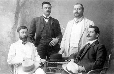 Simeon Radev, Boris Sarafov, Count Malato from Sicily and Stavre Naumov.